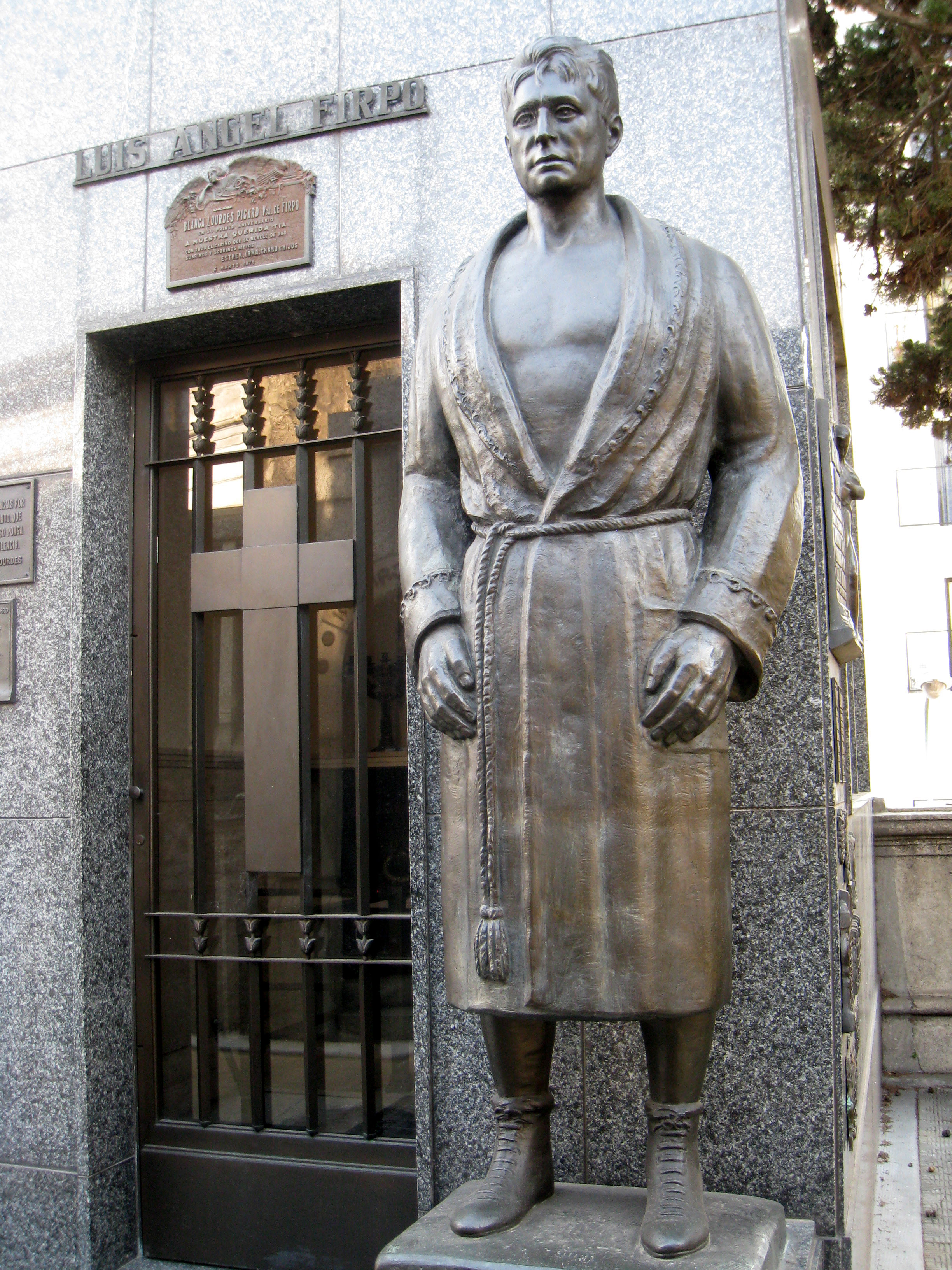 Tomb of boxer Luis Ángel Firpo, Cementerio de la Recoleta, Buenos Aires, Argentina.